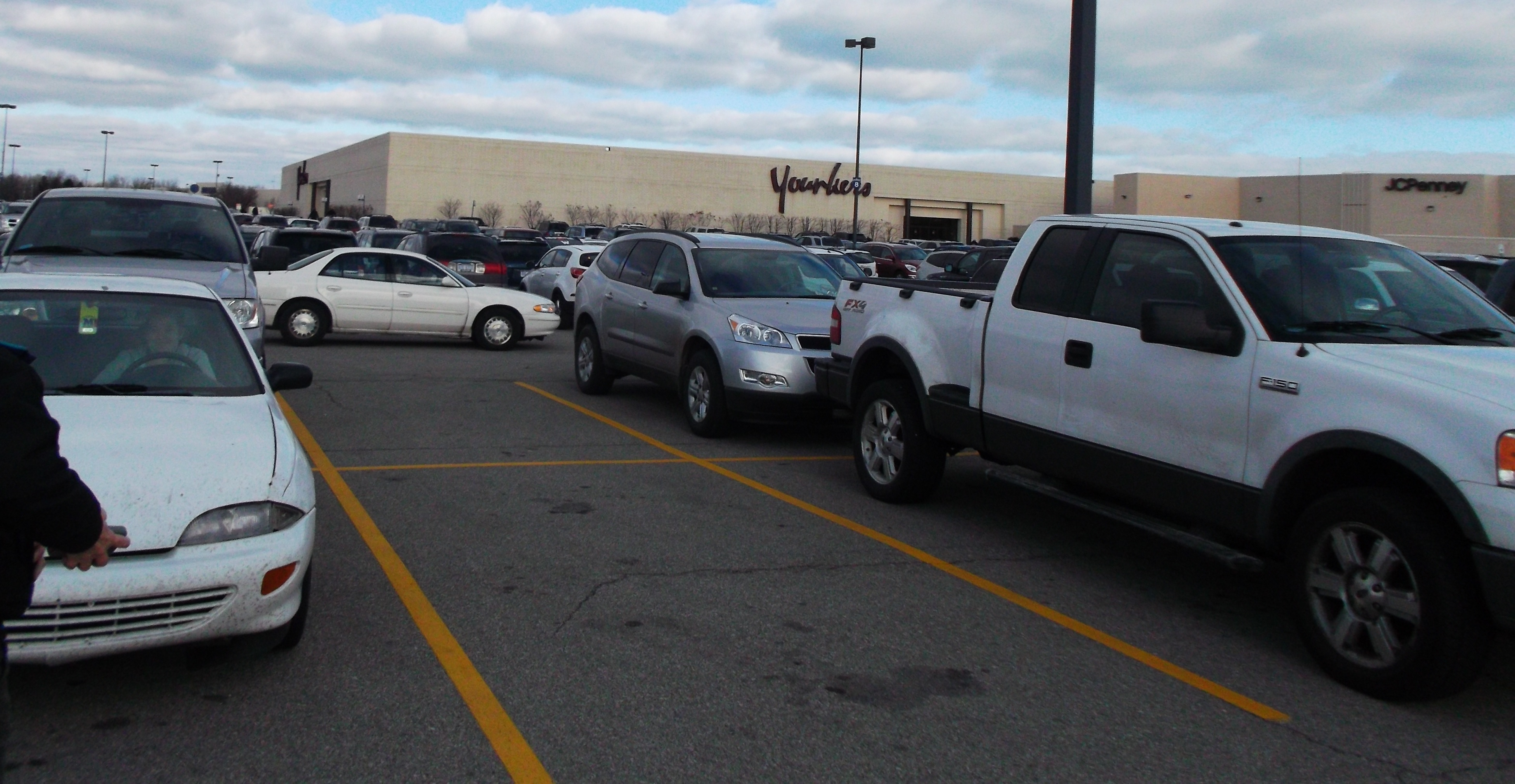 Younkers at Bay City Mall.